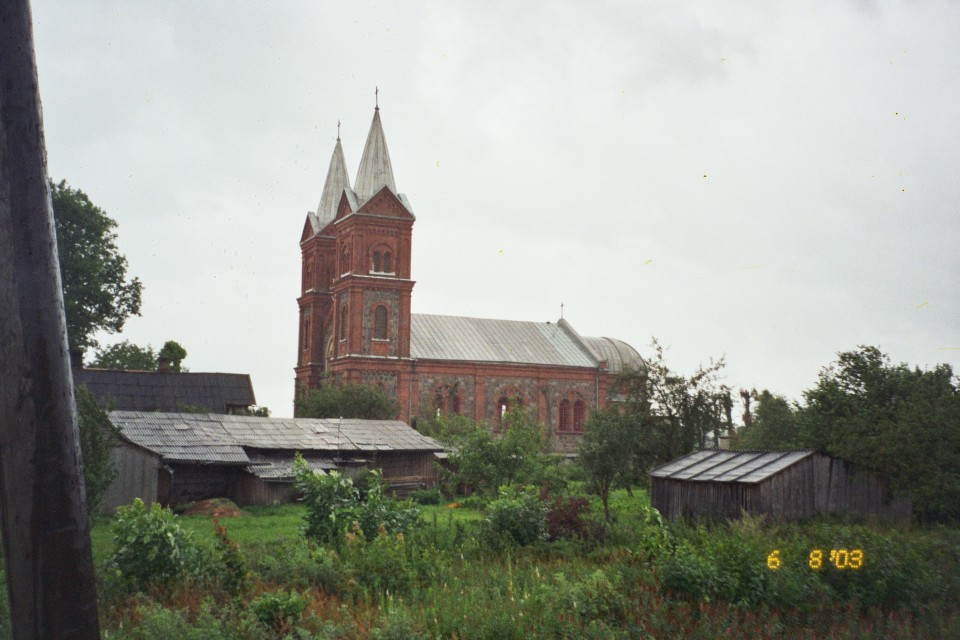 Stirniene Saint Lawrence Roman Catholic Church